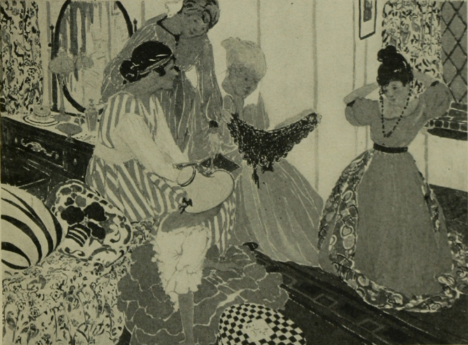 Black and white reproduction of Heirlooms by Laura Wheeler from the 1916 New York Watercolor Club Exhibition catalog